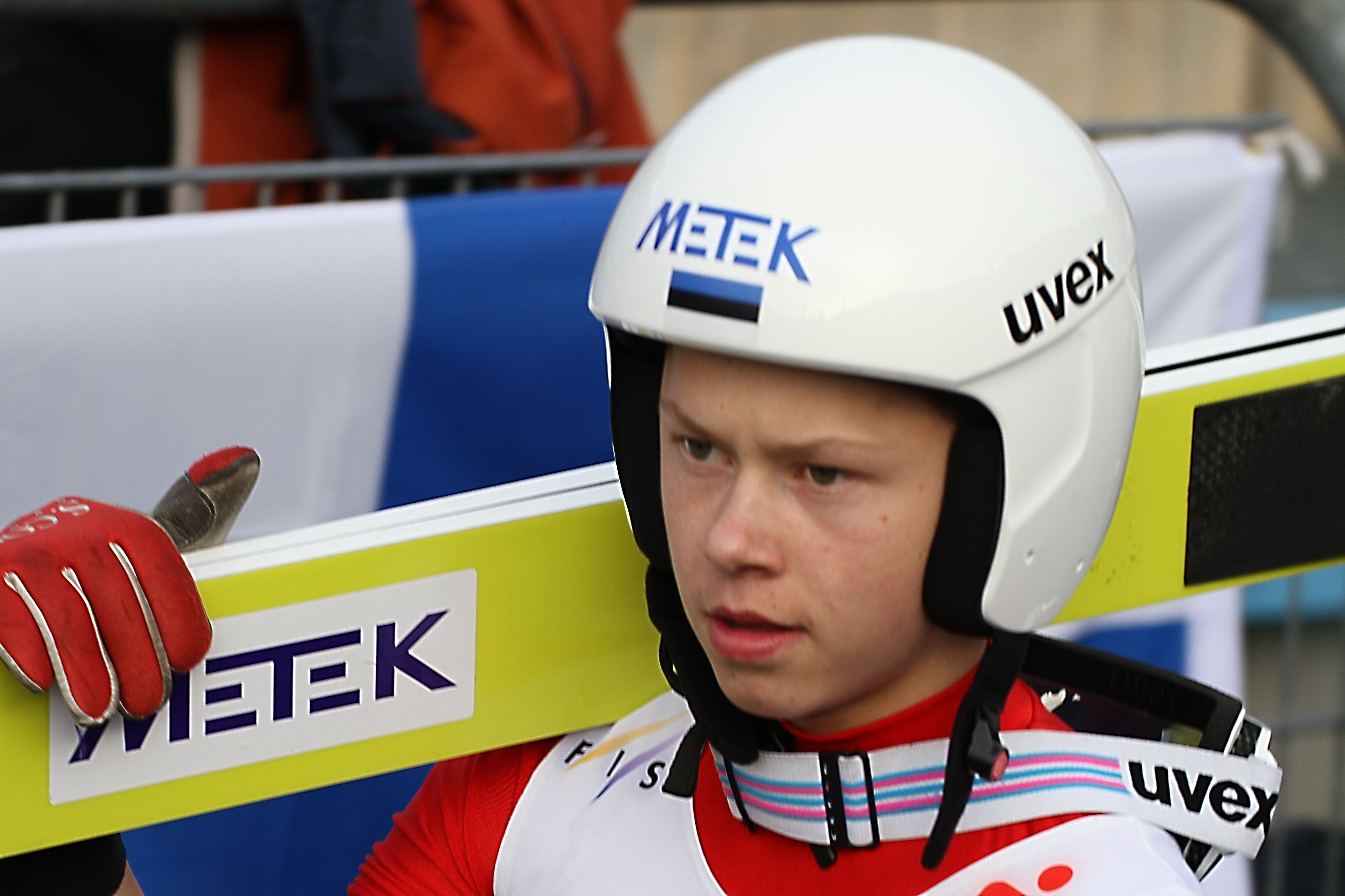 FIS Ski Jumping Summer Continental Cup Klingenthal 2017 Artti Aigro